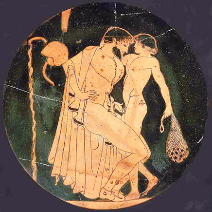 Pederastic scene at the palaestra: man and youth about to make love. The youth is holding a bag of nuts, probably a courting gift from his lover. On the wall, a sponge and strygil (scraper). Tondo of an Attic red-figure cup by the Brygos-Painter, 480–470 BC, Ashmolean Museum (1967.304)